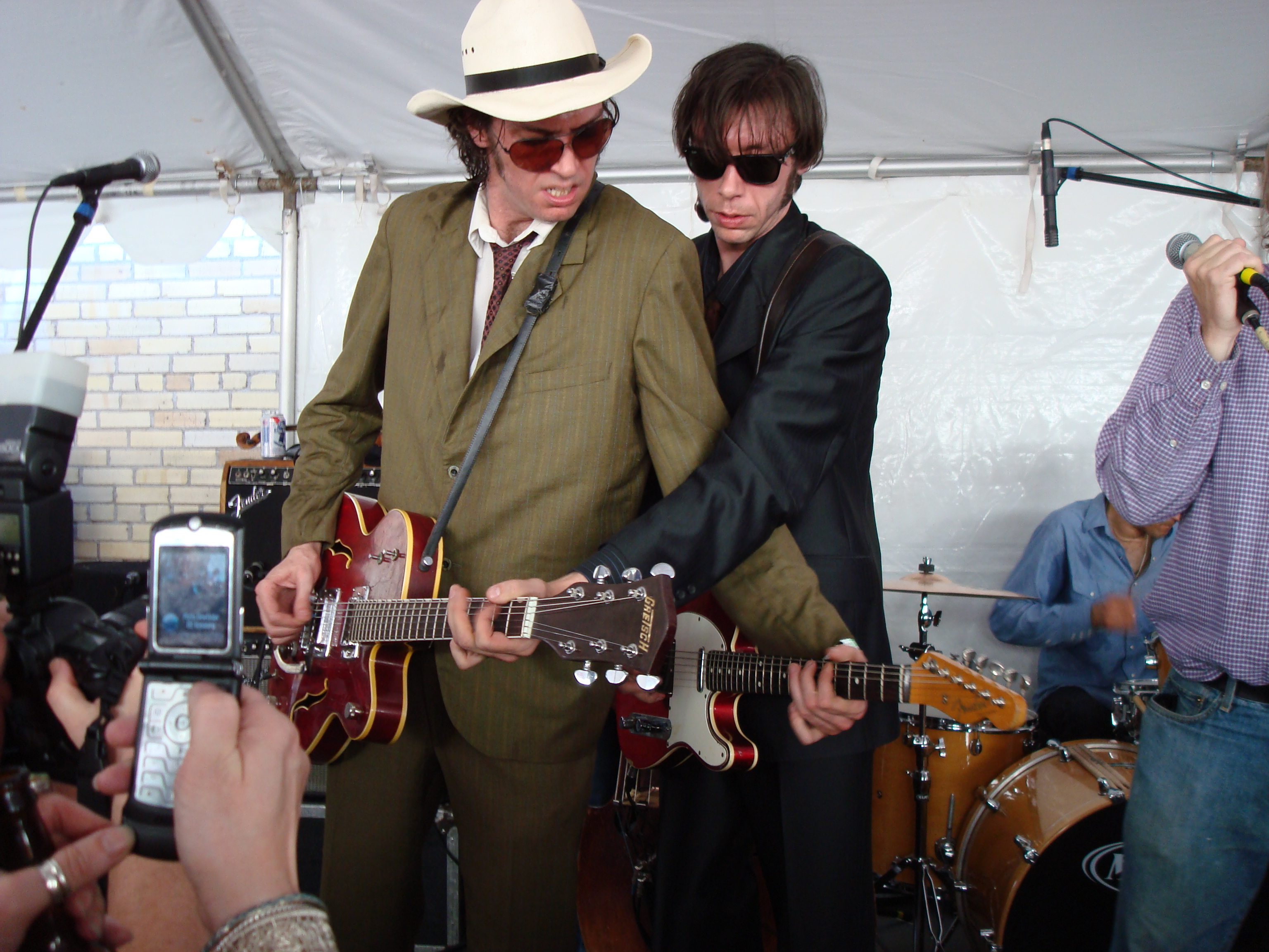 The Sadies - SXSW 2008 Free Show at Yard Dog Art Gallery